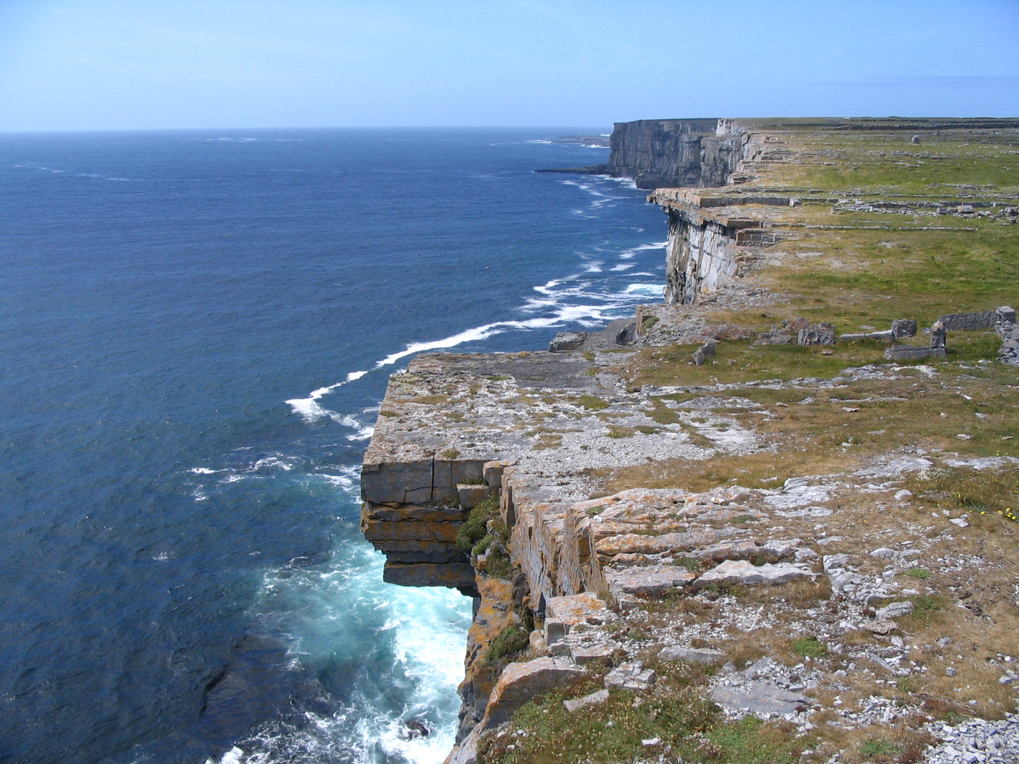 Aran Island - Inis more - Cliff face (Eadan Aille) - EU